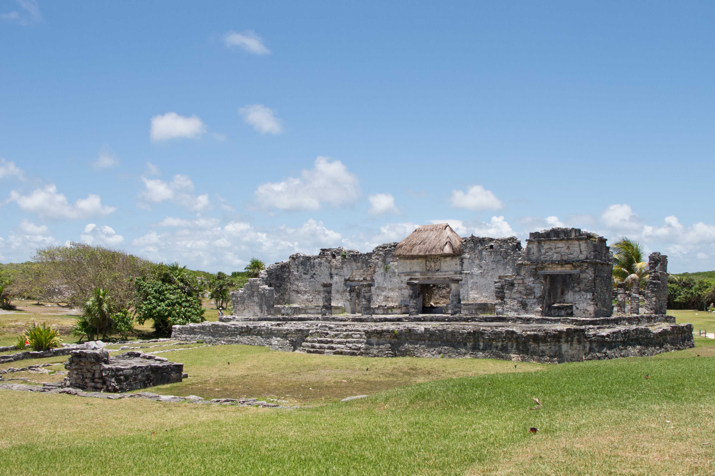 Tulum, Quintana Roo, Mexico.